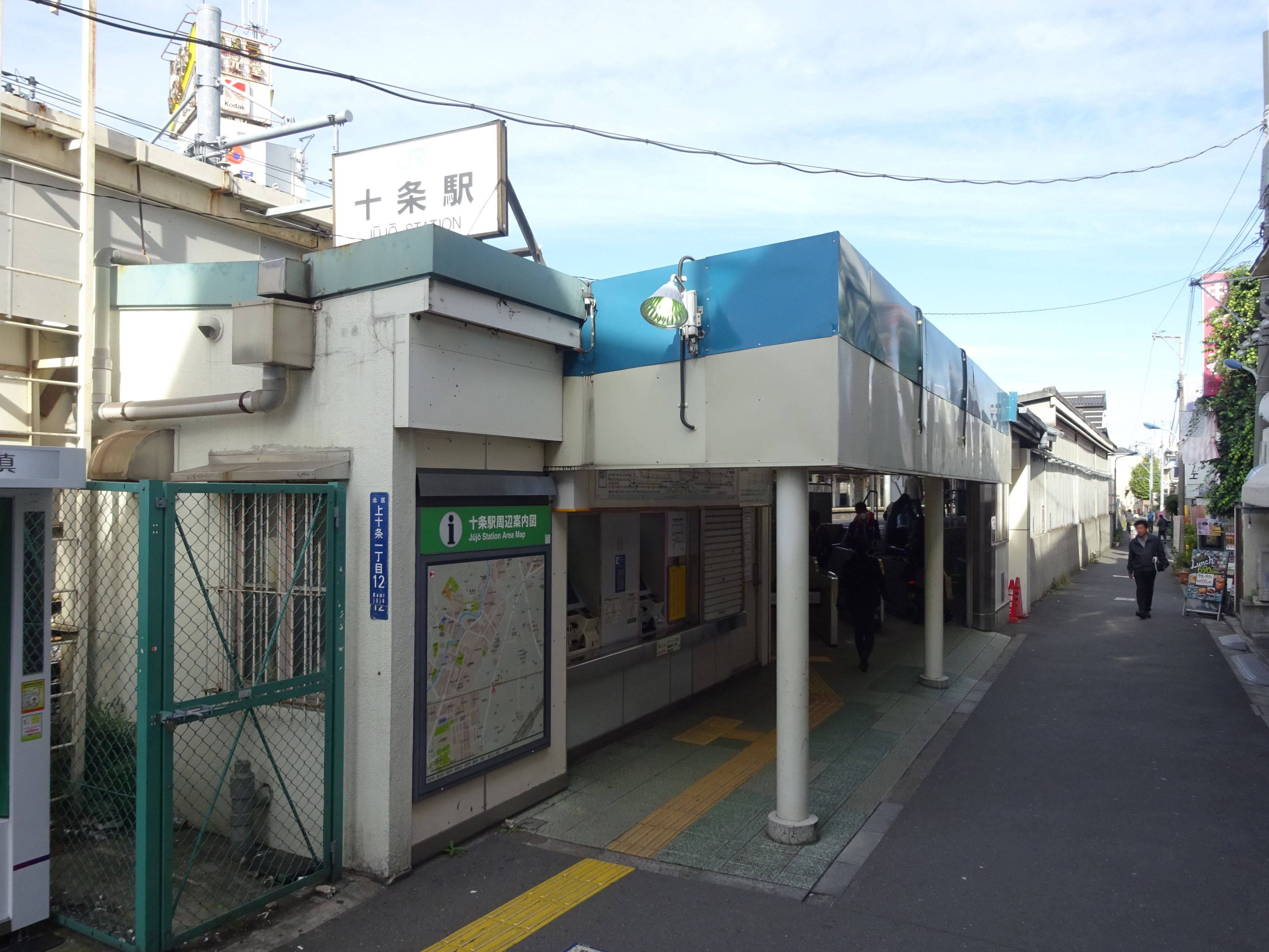 South Entrance of Jūjō Station (Tokyo)